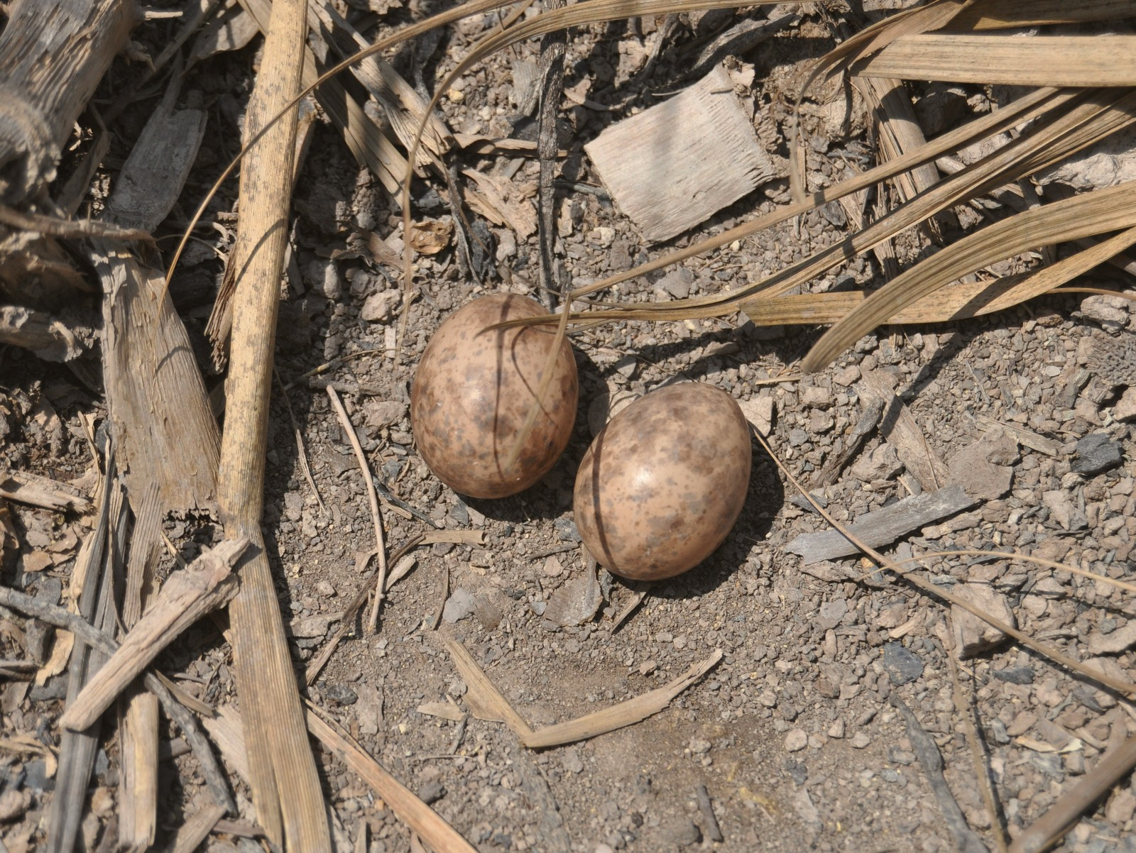 Savannah Nightjar (Caprimulgus affinis) eggs in it's nest. From South Sumatra, Indonesia